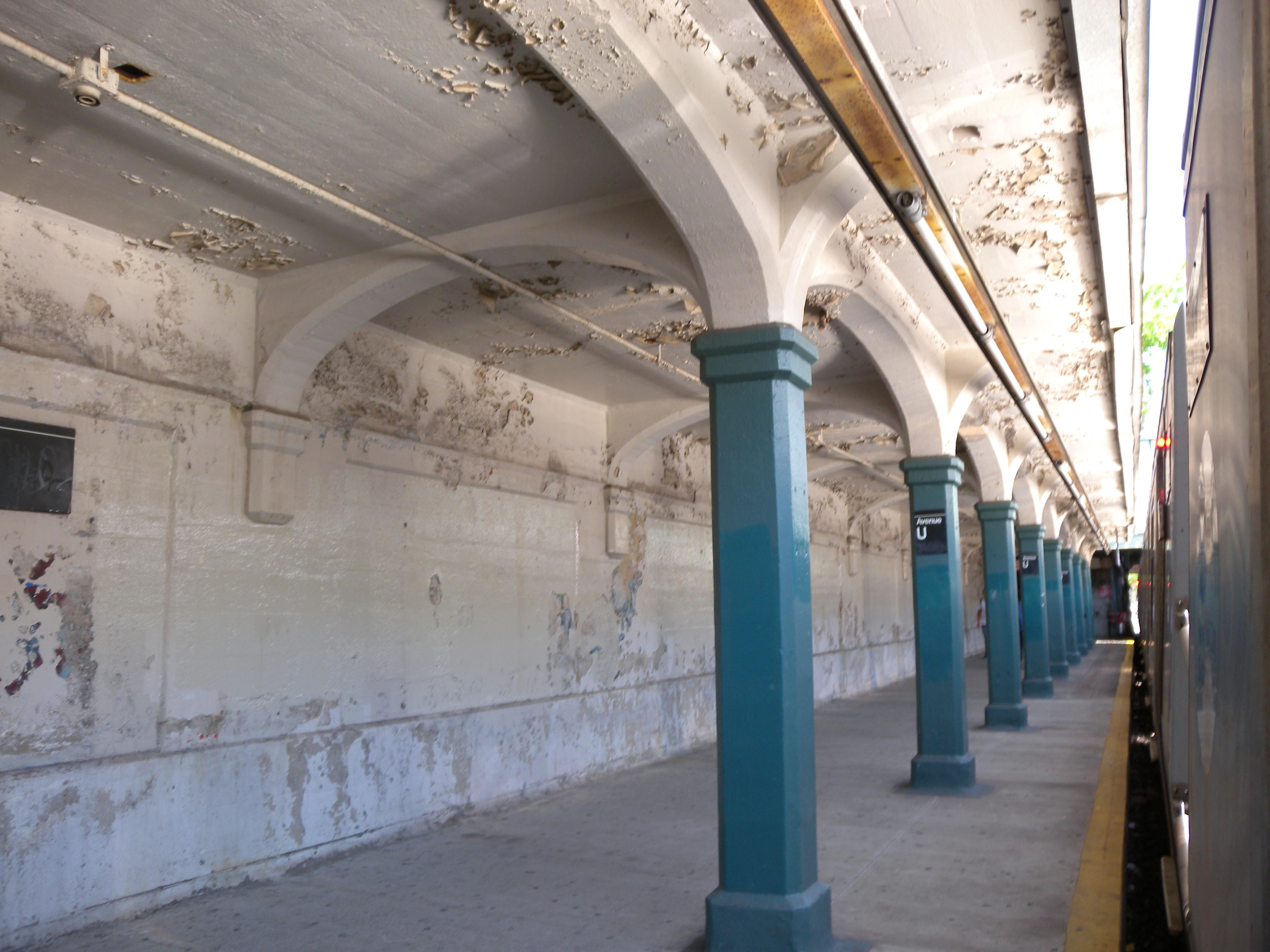 Looking west along southbound platform of Avenue U (BMT Sea Beach Line).